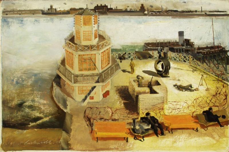 A Searchlight Battery image: a searchlight on a small paved area of a promenade, next to a lighthouse. The area is surrounded by barbed wire and also contains a small, manned anti-aircraft gun emplacement. There are several men in uniform in the battery, including one asleep on the ground near his tripod. Outside the fenced civilians relax on benches.